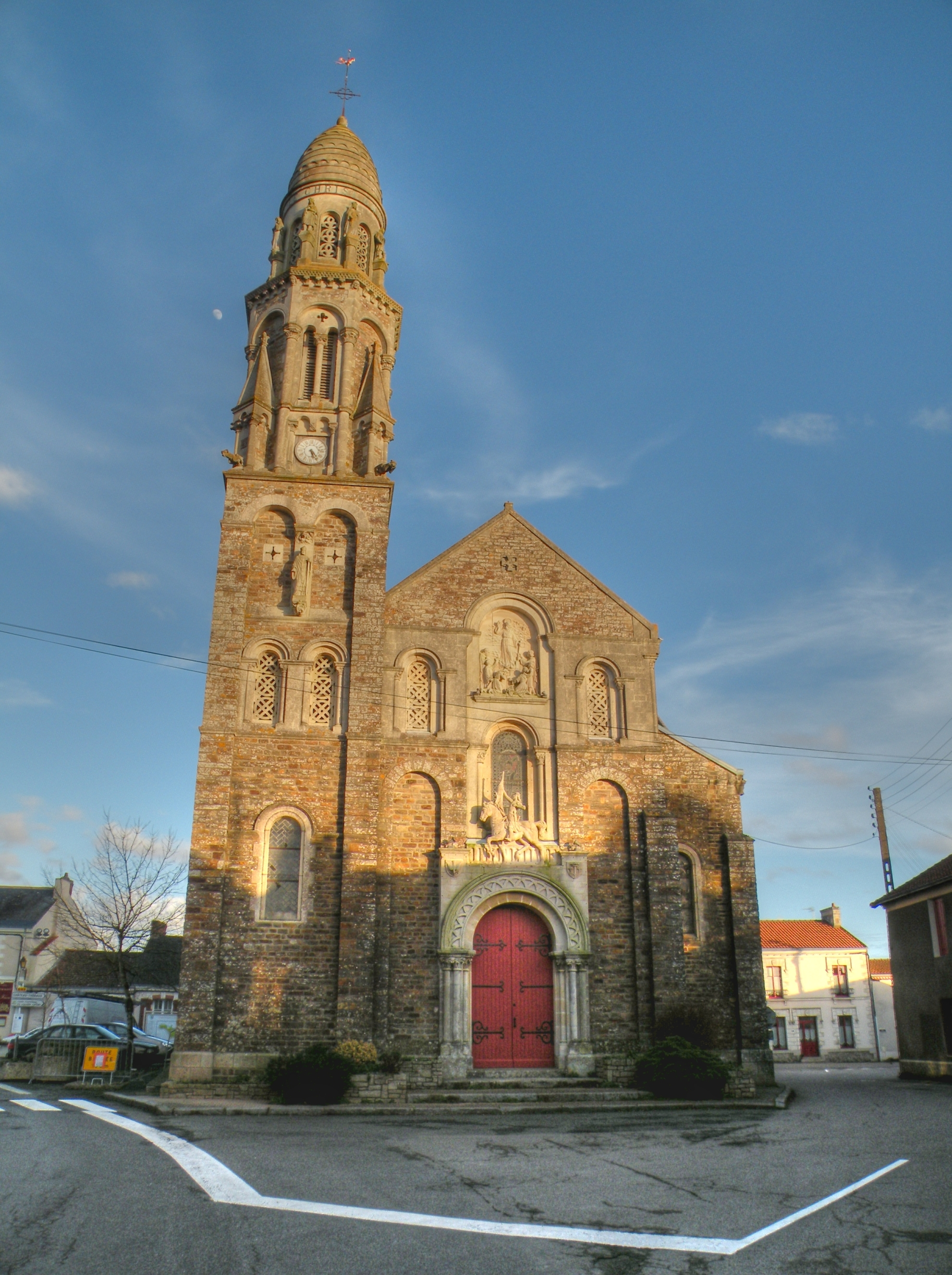 Church of Saint-Fiacre-sur-Maine